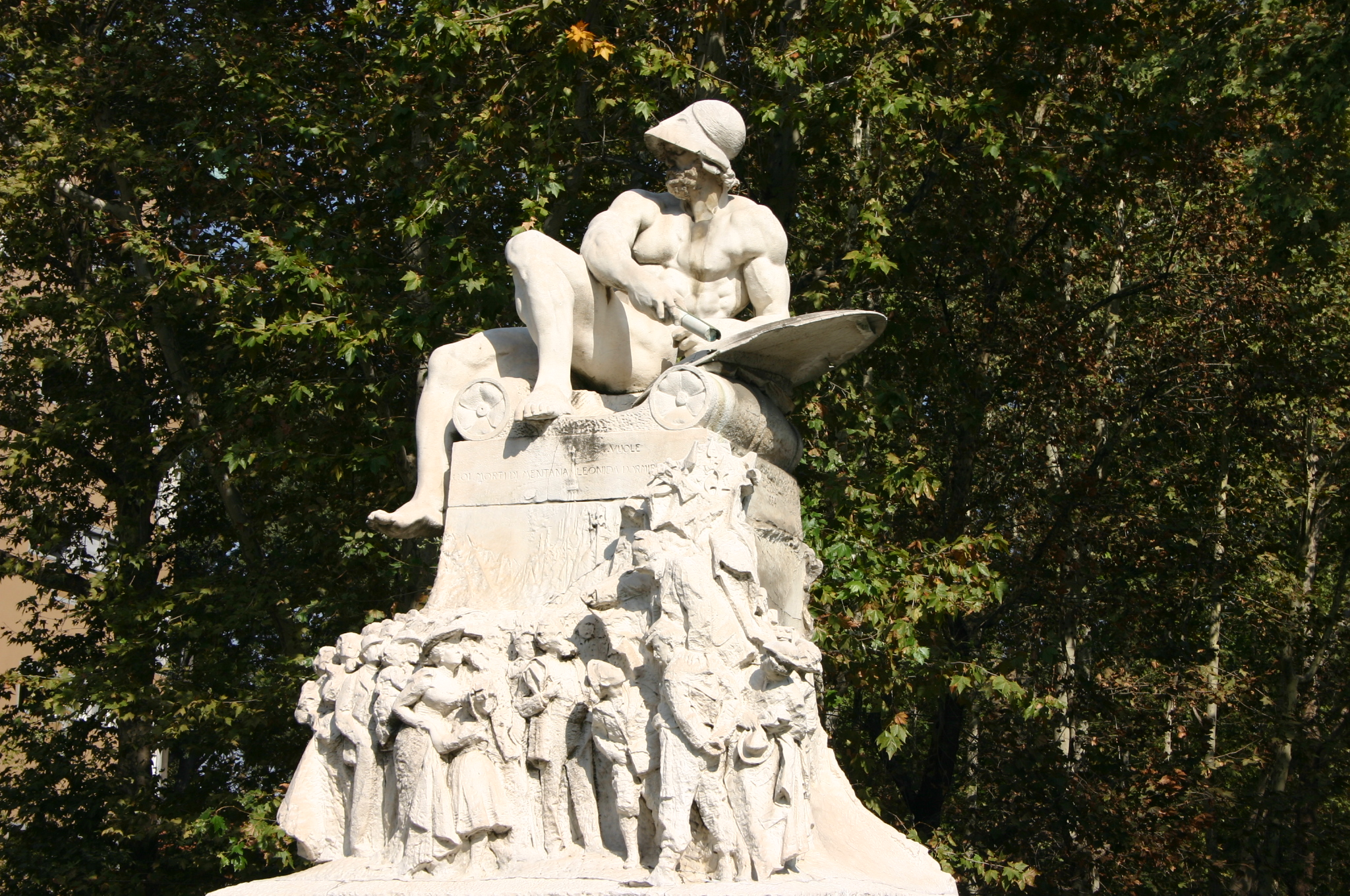 Ernesto Bazzaro (1859-1937), Monument to Felice Cavallotti (1906), in Milan, Italy. Detail: king Leonidas I. Picture by Giovanni Dall'Orto, September 24 2007.